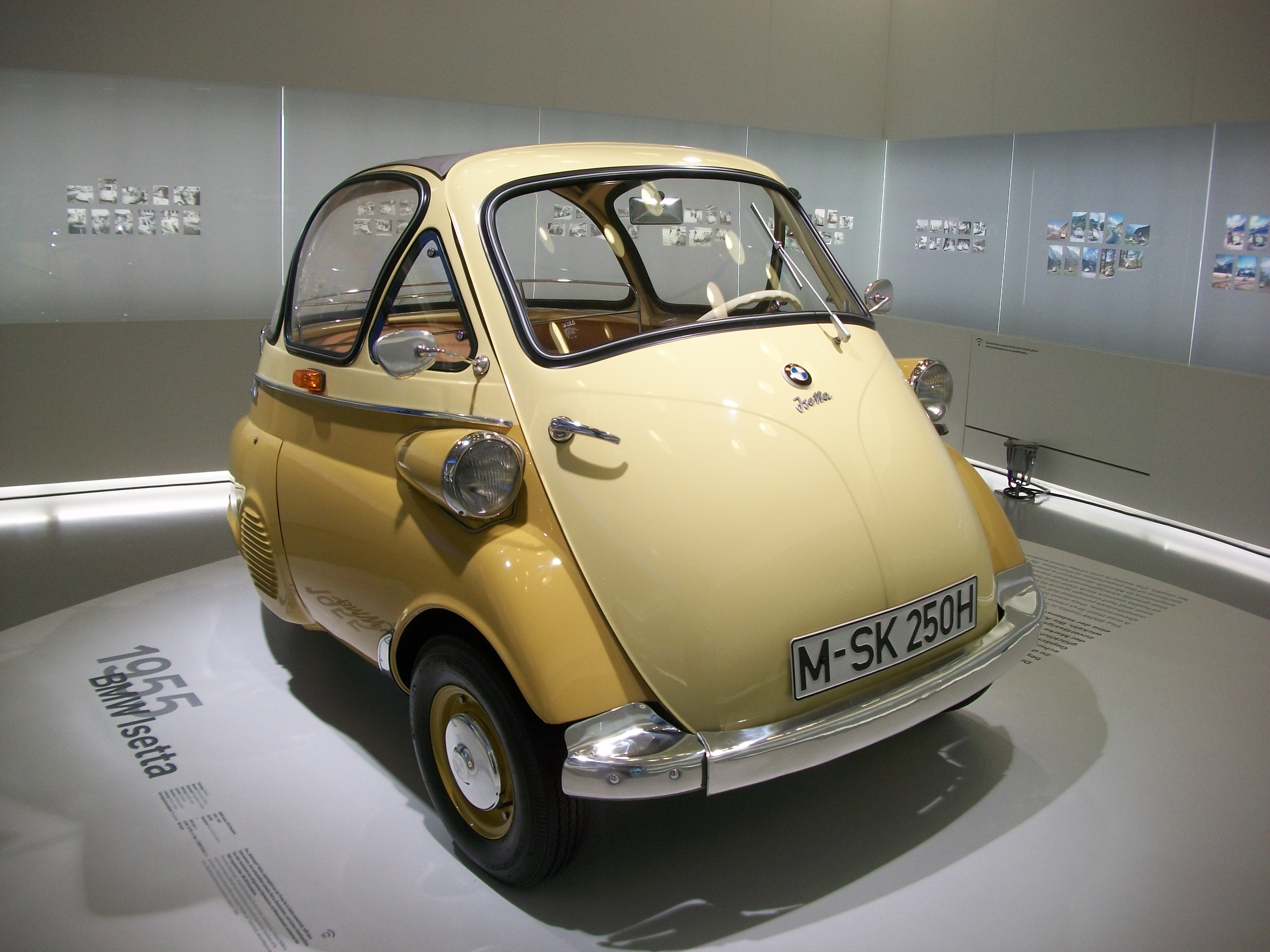 1955 BMW Isetta in BMW Welt,Munich